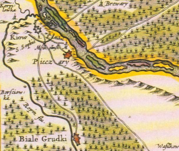 One piece Kiev Voivodeship district map. Polish - Kijów, Lithuanian. - Kiow. [in] Tractus BORYSTHENIS Vulgo DNIEPR at NIEPR dicti, a KIOVIA as Urbum OCZAKOW ubi in PONTUM EUXINUM se exonerat, by Jan Jansson, 1663, Amsterdam.